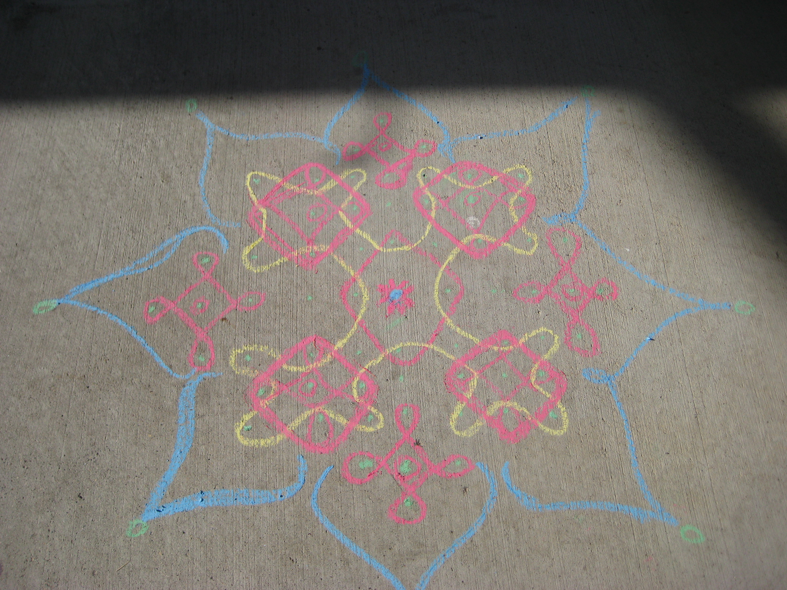 While in Minnesota, USA, I drew this Kolam with sidewalk chalk.